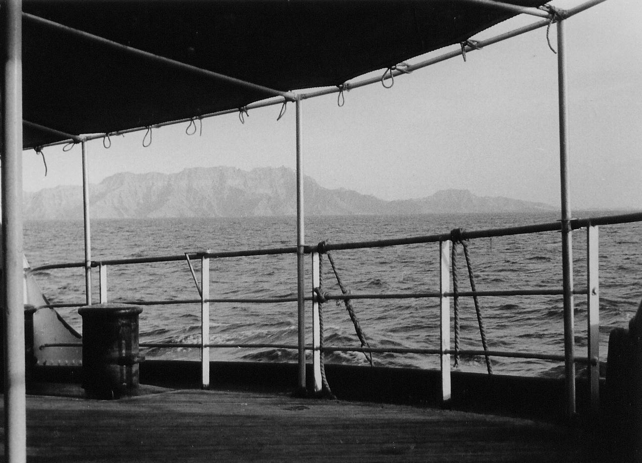 German cargo ship MS Bernhard Howaldt in the Strait of Hormuz in dezember 1957